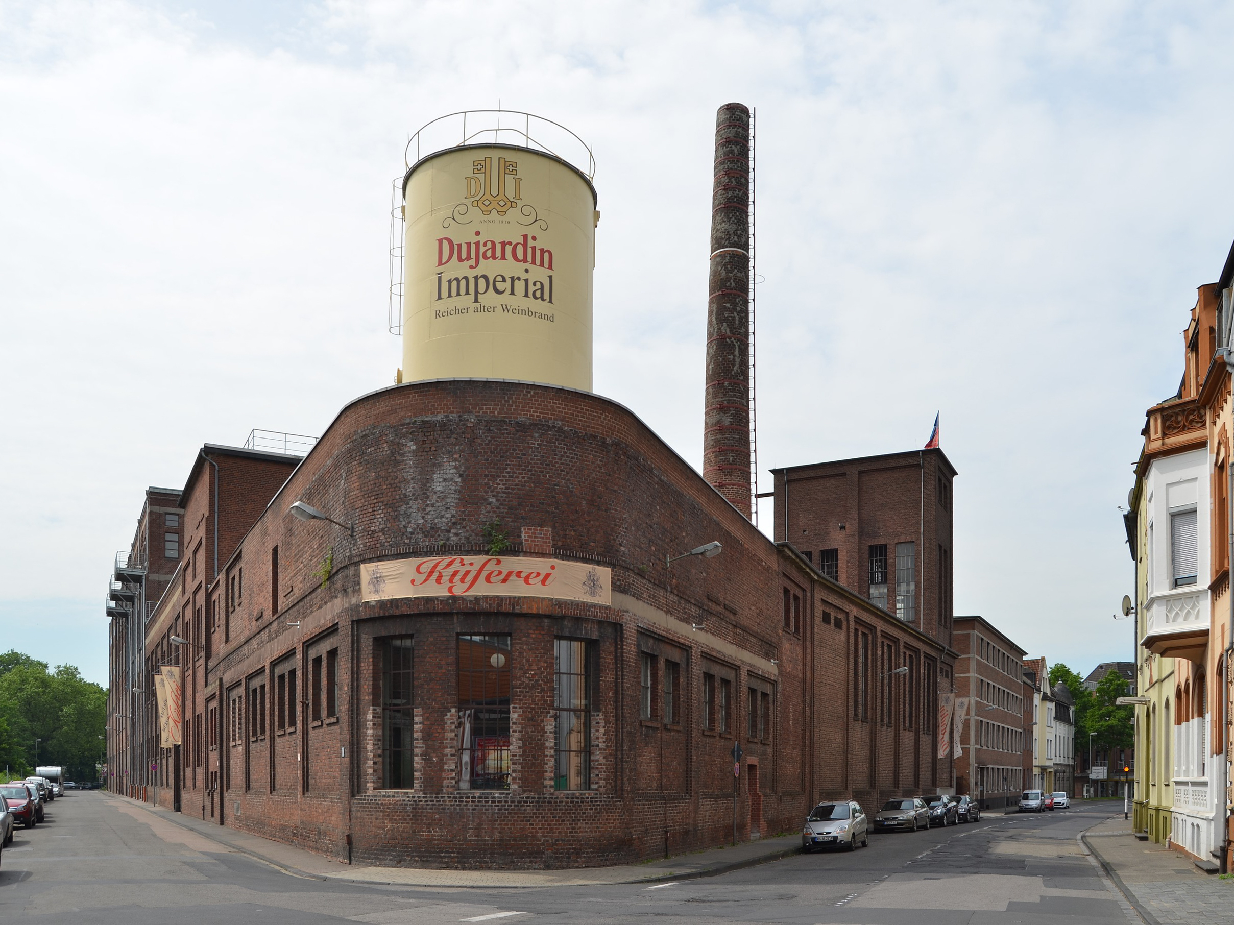 Krefeld (North Rhine-Westphalia, Germany) – Uerdingen – Dujardin Brandy Distillery This image shows a heritage building in Germany, located in the North Rhine-Westphalian city Krefeld (no. 969). This photograph was taken with a Nikon D7000